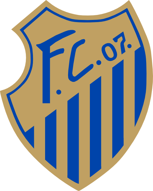 Logo of FC 07 Laurahütte, German football team.